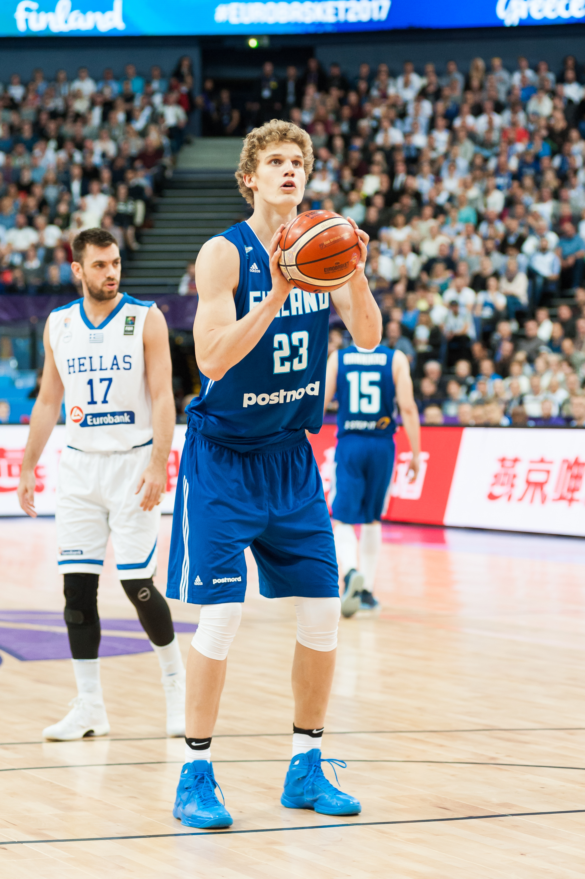 EuroBasket 2017 Group A game between Greece and Finland at Hartwall Arena in Helsinki, Finland.